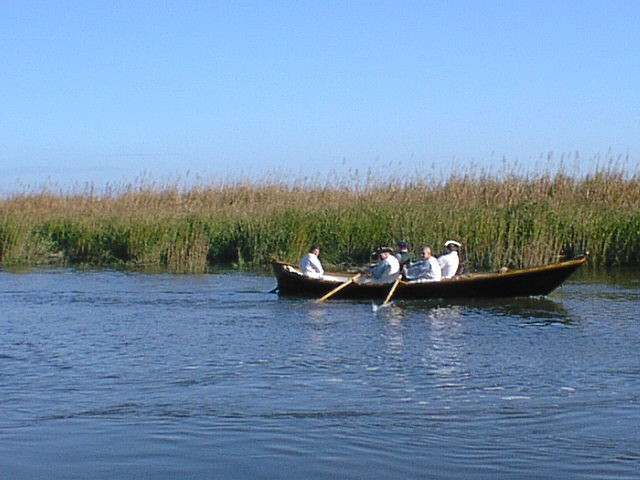 Re-enactors demonstrating rowing techniques used by coastal scouts aboard a replica scout boat.